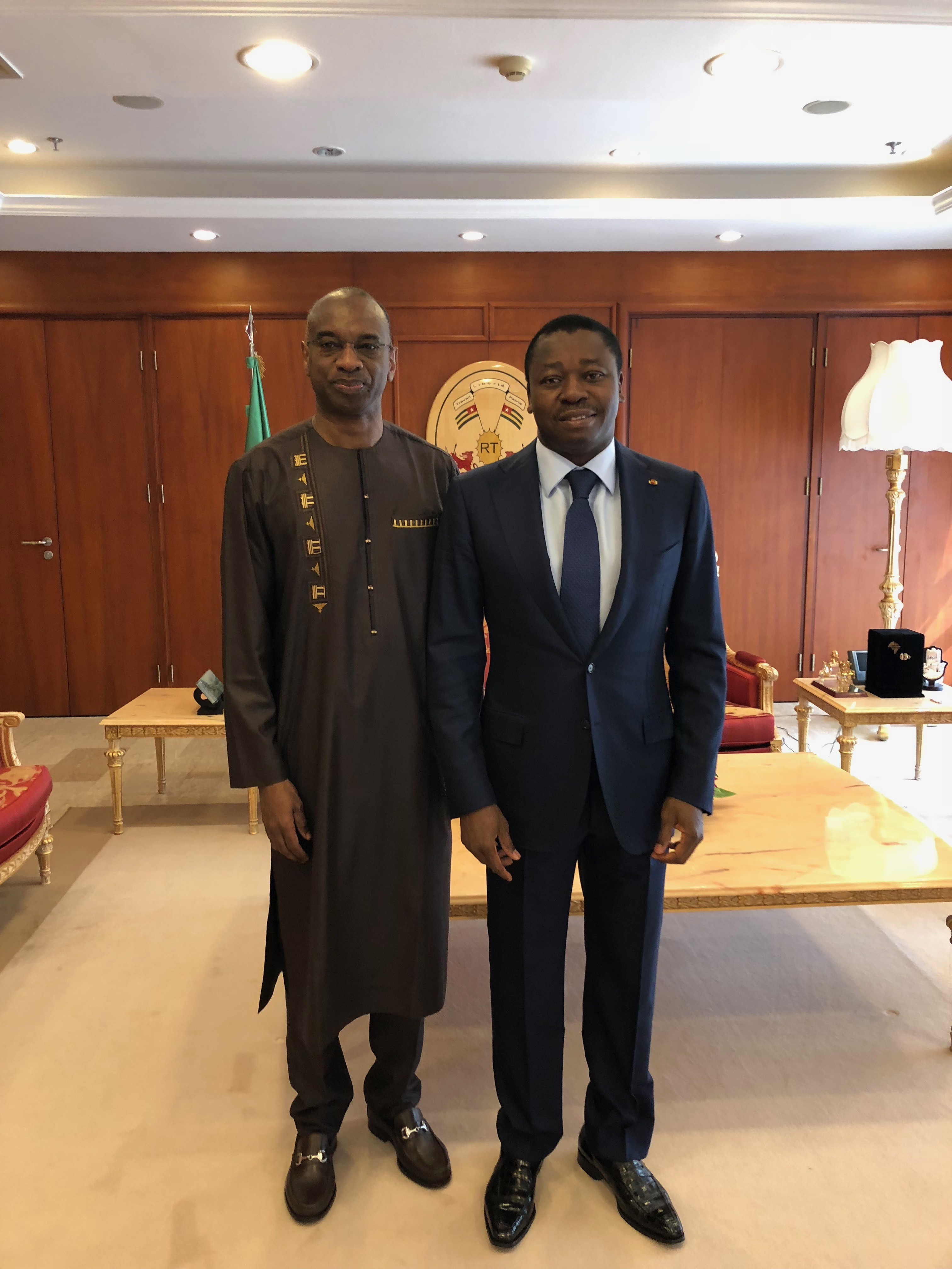 SRSG Modibo I. Toure and President Faure E. Gnassingbe of Togo, following a bilateral meeting on 3 April 2018.